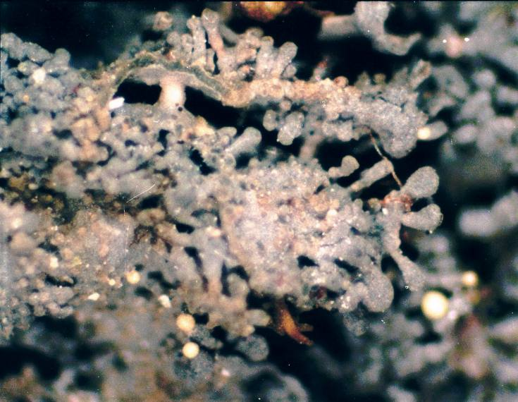 Leptogium cyanescens (Rabenh.) Körber, 1855 (photograph of a herbarium specimen taken through a dissecting microscope (x40) showing isidia that are lobule-like) Growing with moss over granite outcrops along east side of the Upper S Branch Pond, at Baxter State Park, Piscataquis County, Maine, USA; collected and identified by A. Norden and B. Norden (No. 7724, 9 Jun 1974); specimen is now in the Lichen Herbarium of the New York Botanical Garden.